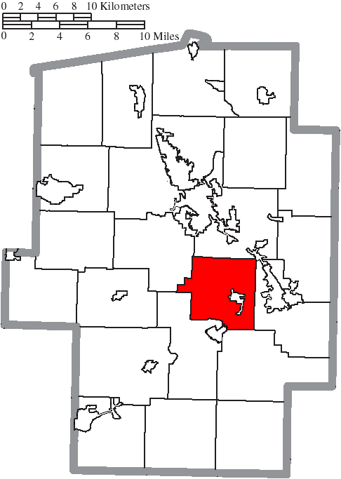 Map of the municipal and township boundaries of Tuscarawas County, Ohio, United States, as of the 2000 census, with the location of Warwick Township highlighted. Township borders are shown only in unincorporated areas in order to differentiate incorporated and unincorporated areas more clearly.